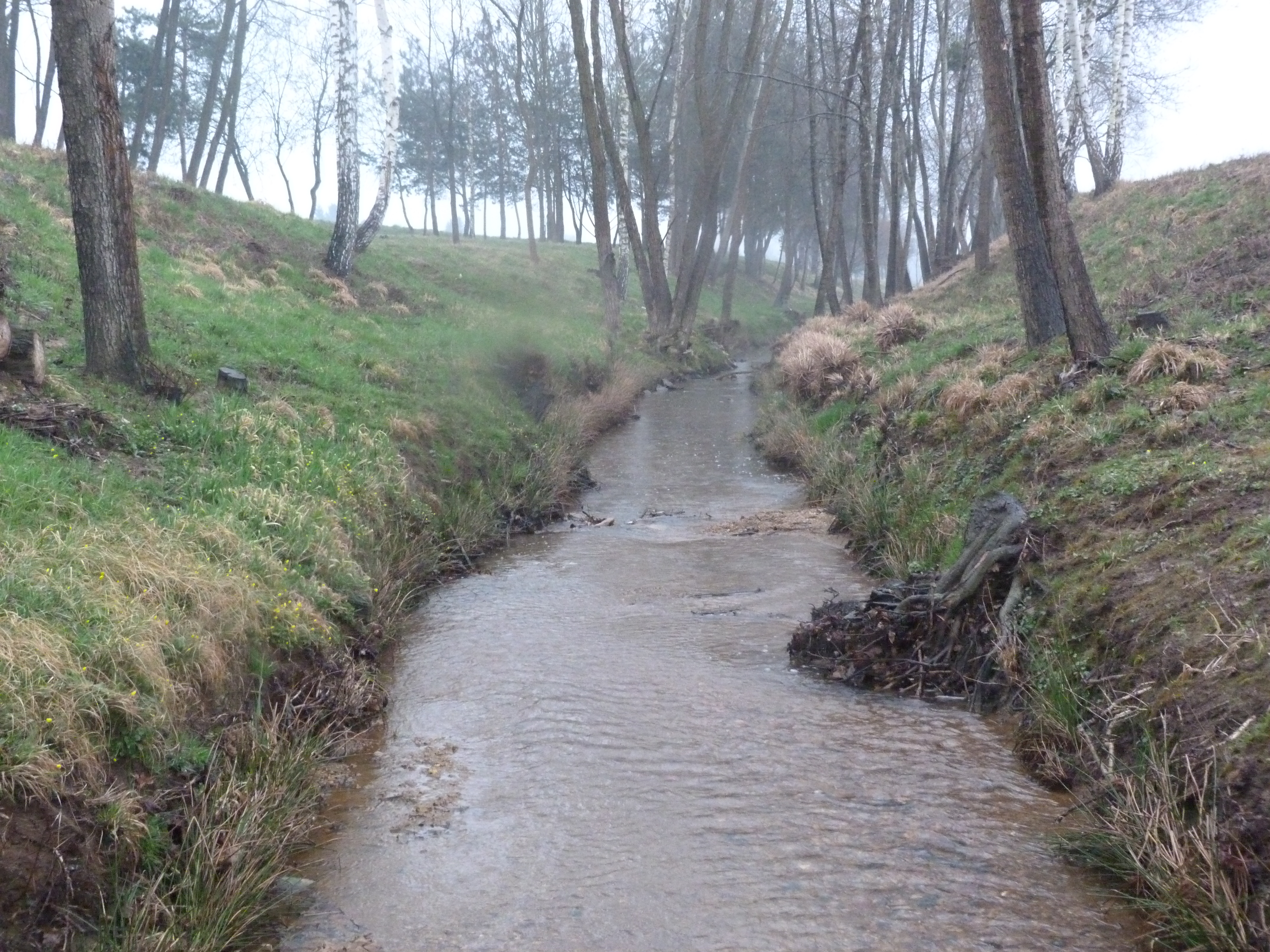 Live on the 25th of March, 2015. Szentgyörgyvölgy, Hungary. 7500 years old Szentgyörgyvölgy cow was discovered here. Varga Géza writing historian solved the writing on it. ©© Derzsi Elekes Andor, Budapest, 2015, Published in the Metapolisz DVD line. You are authorised to use this photo under Creative Commons – even for commercial, for profit purposes. The photo must be attributed to Derzsi Elekes Andor. All of the photos and vids in the Metapolisz DVD line are under Creative Commons and can be used even for commercial – for profit – purposes. Recommended Citation Derzsi Elekes Andor: Metapolisz DVD line